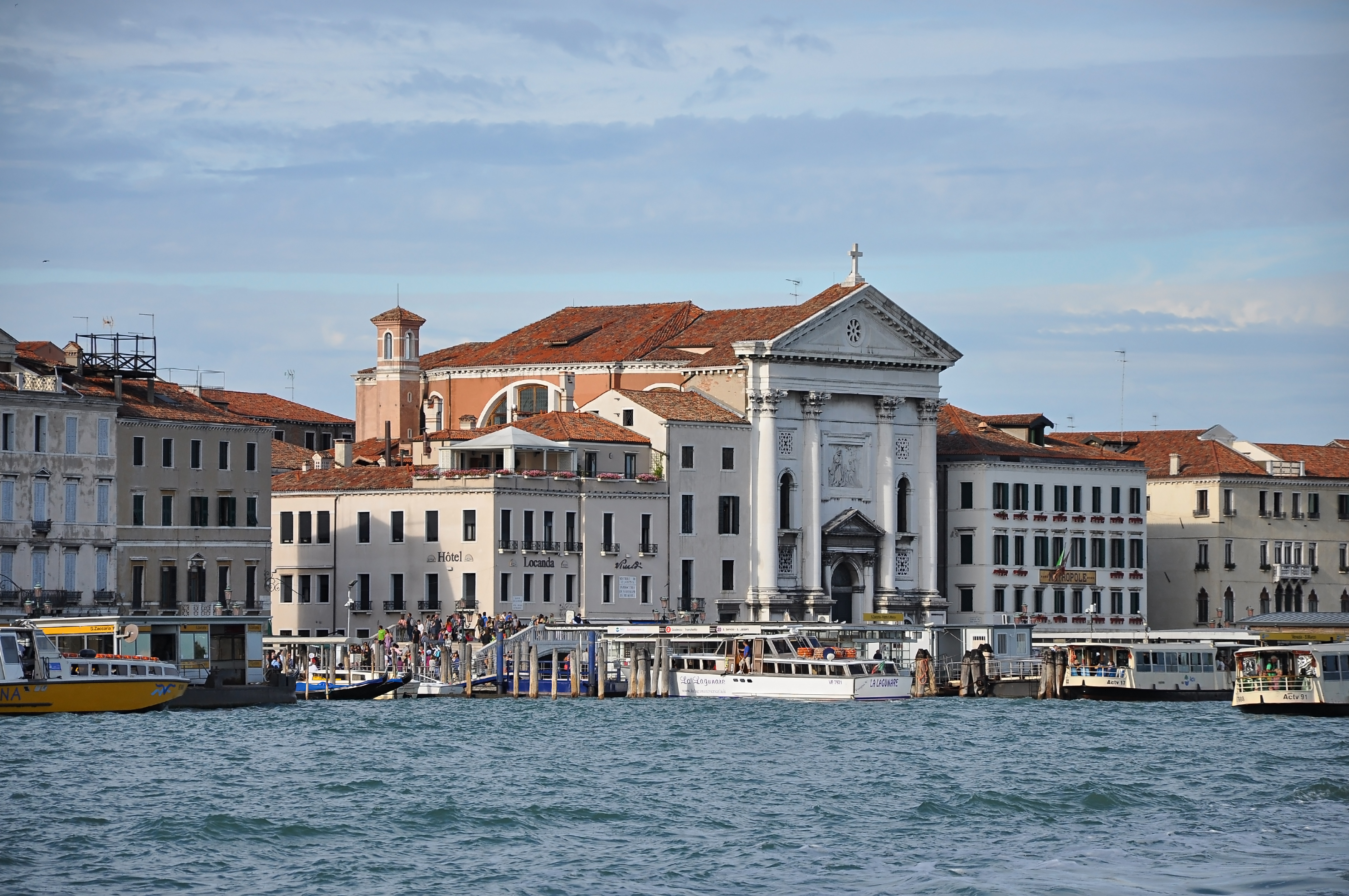 Chiesa della Pietà on the Riva degli Schiavoni at Castello sestiere in Venice, Italy.